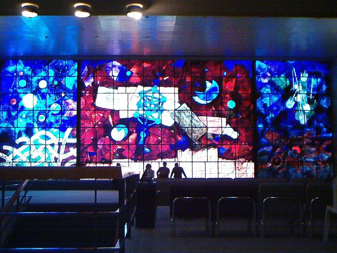 Ardon Windows in the Jewish National and University Library in Jerusalem